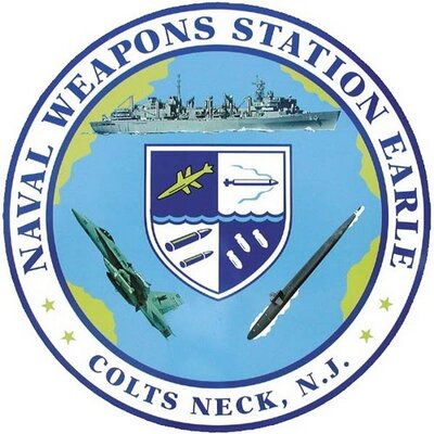 NWS Earle logo